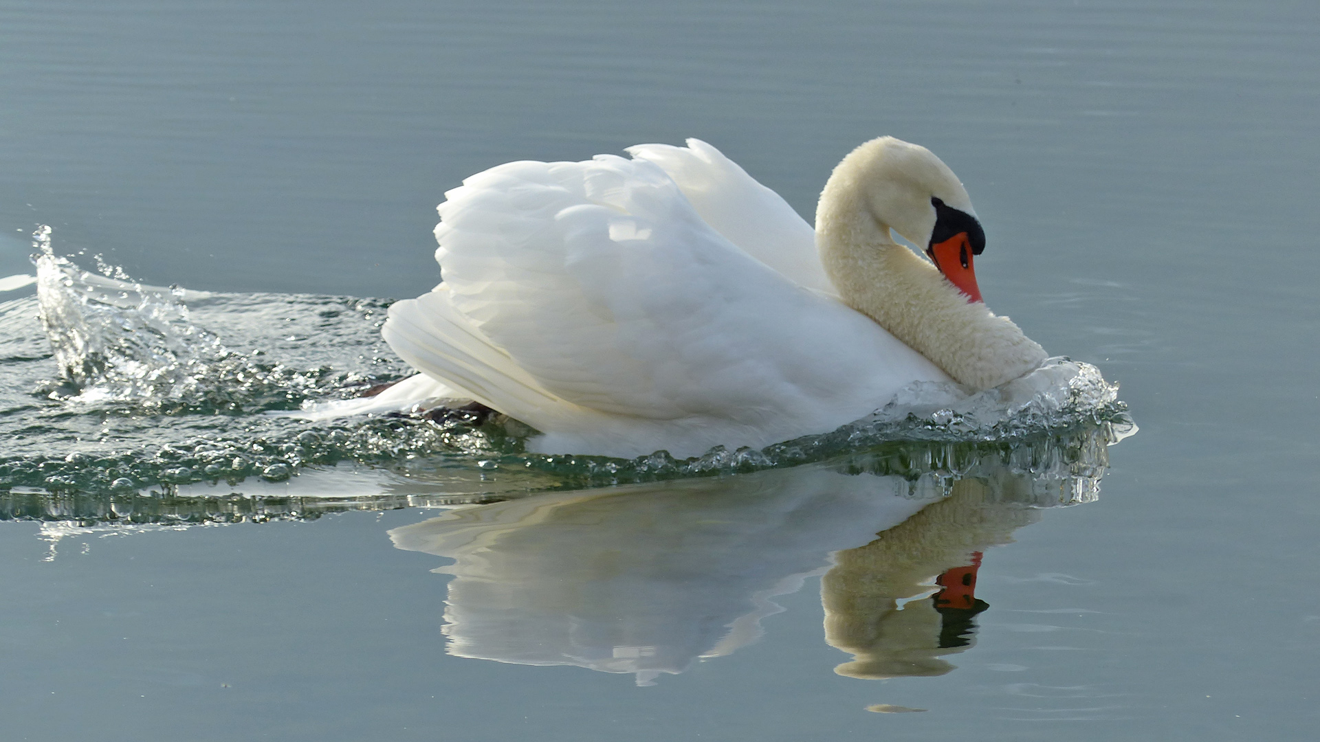 This swan is protecting his nest, he seems angry